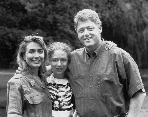 (Left to right): Hillary, Chelsea, and Bill Clinton.